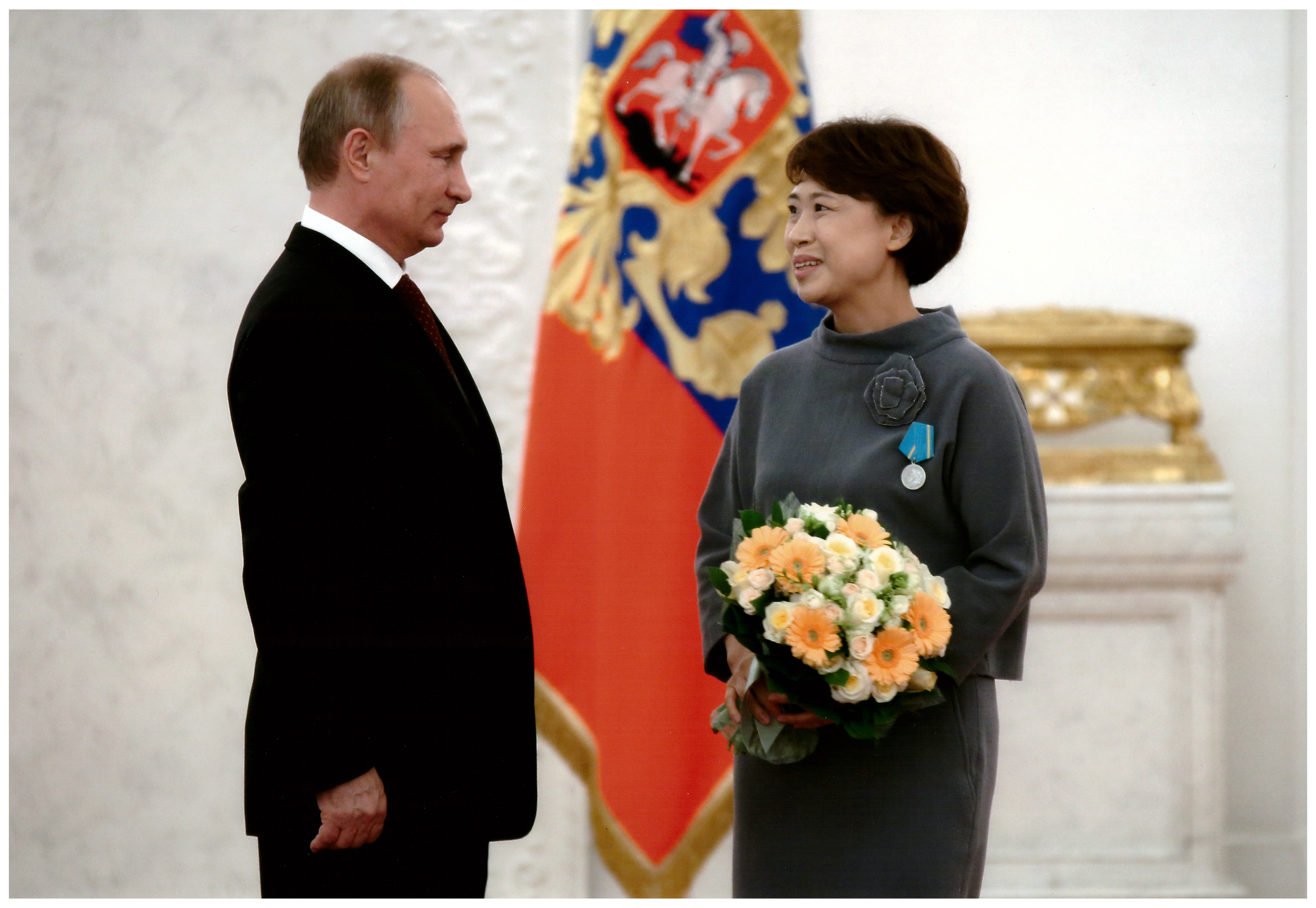 러시아 정부로부터 '뿌쉬낀메달'을 수여받은 뿌쉬낀하우스 김선명 원장